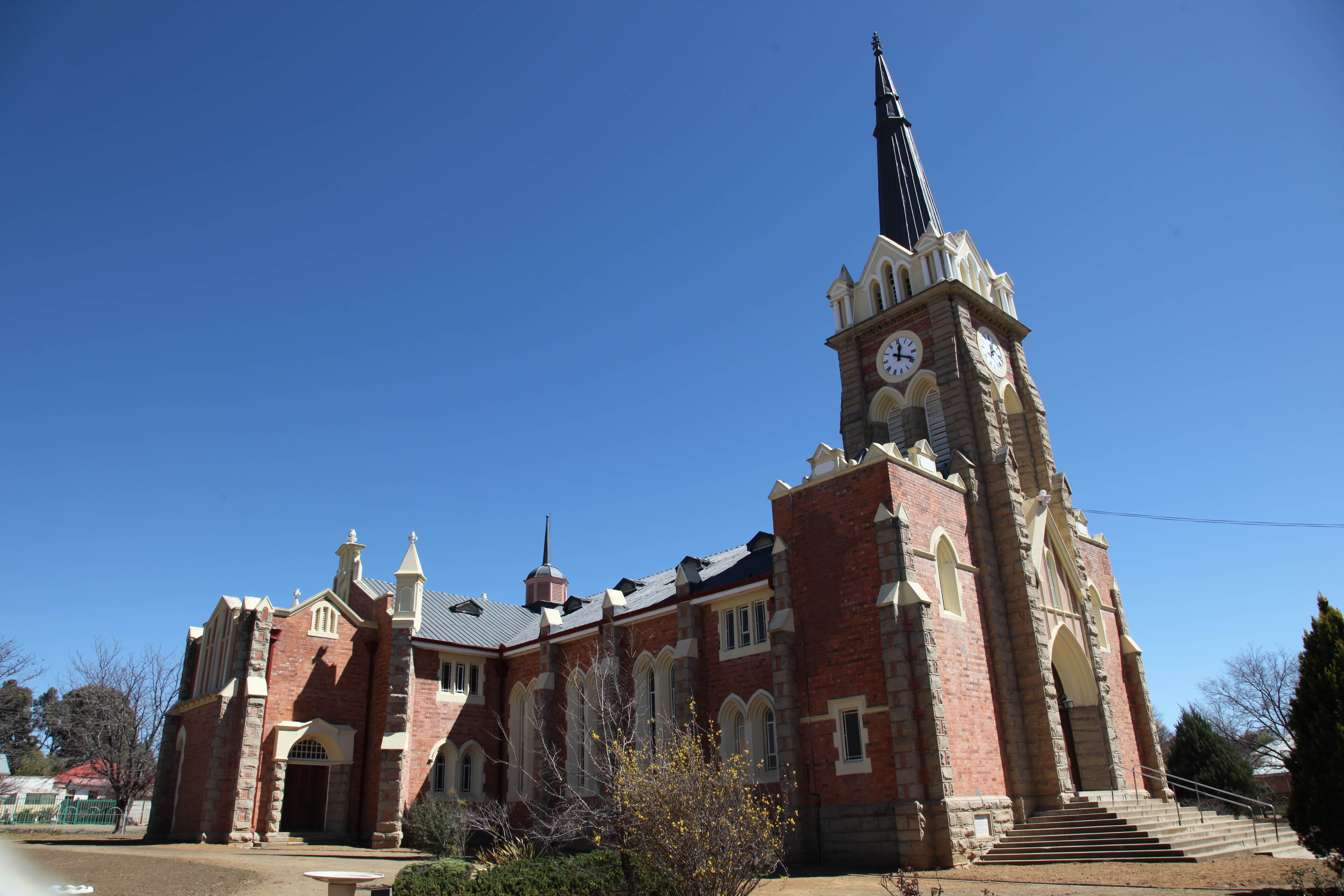 NG Church in Molteno - Eastern Cape - South Africa